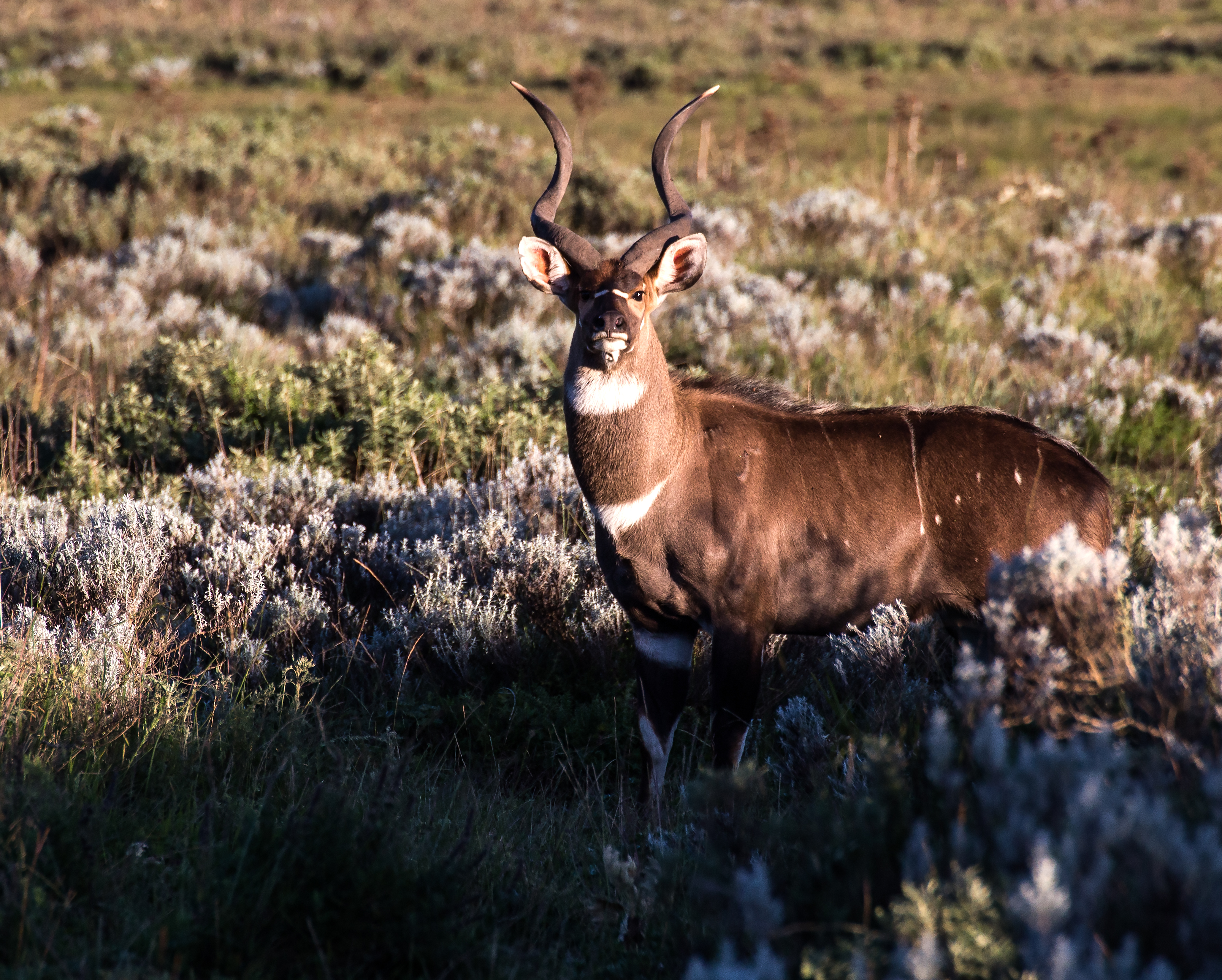 Mountain nyala in Ethiopia